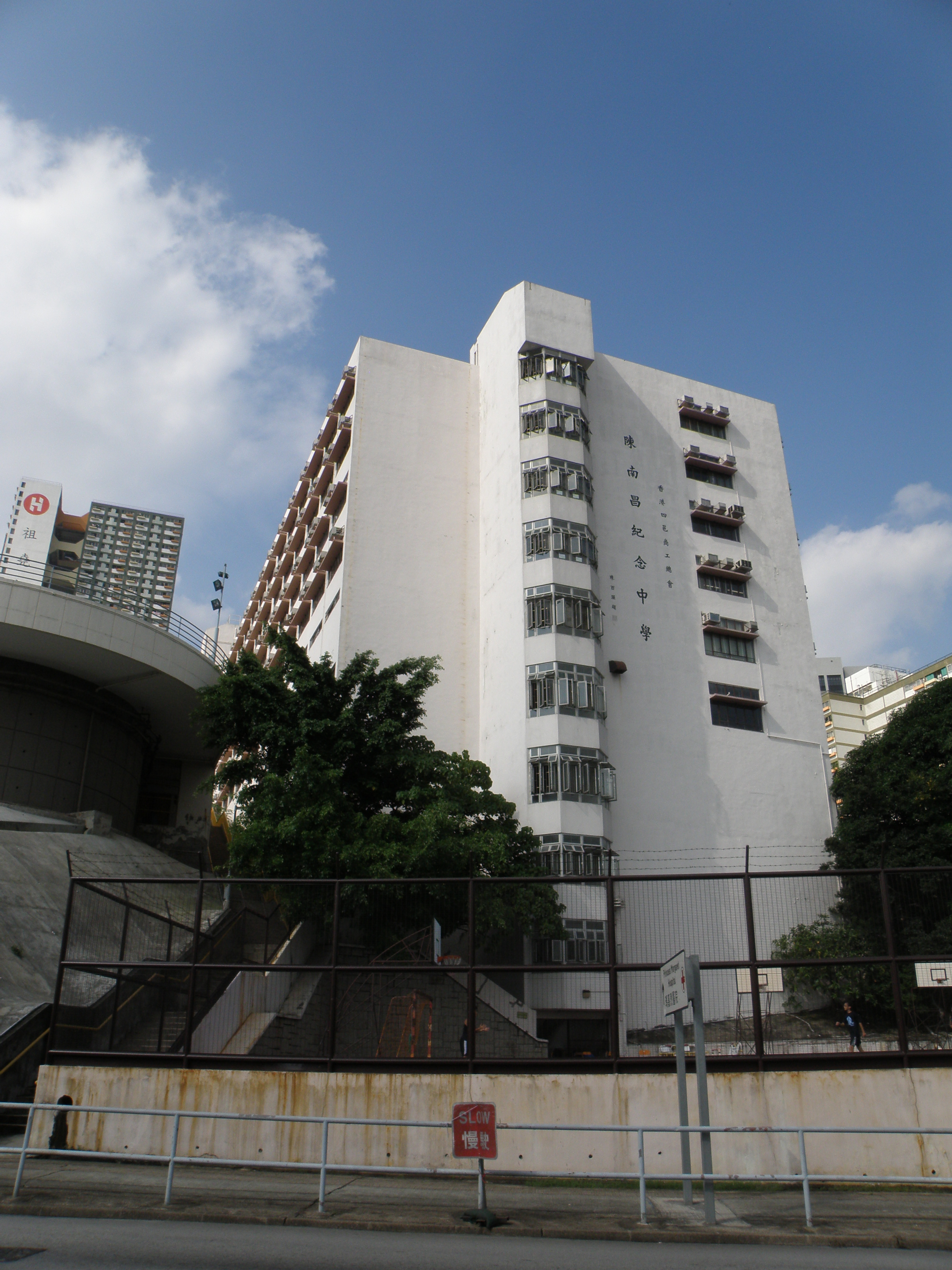 Chan Nam Chong Memorial College in Lai King, Hong Kong.